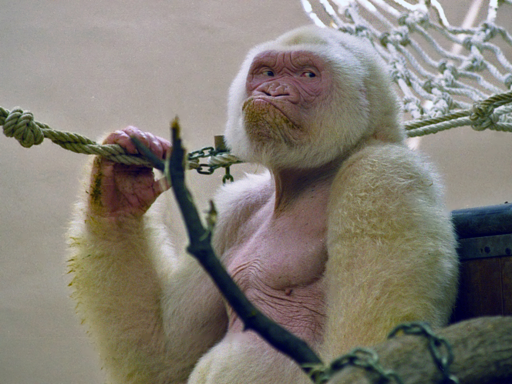 Snowflake - Barcelona Zoo White GorillaDorerin Naoero: Snowflake, gorilla oburubur